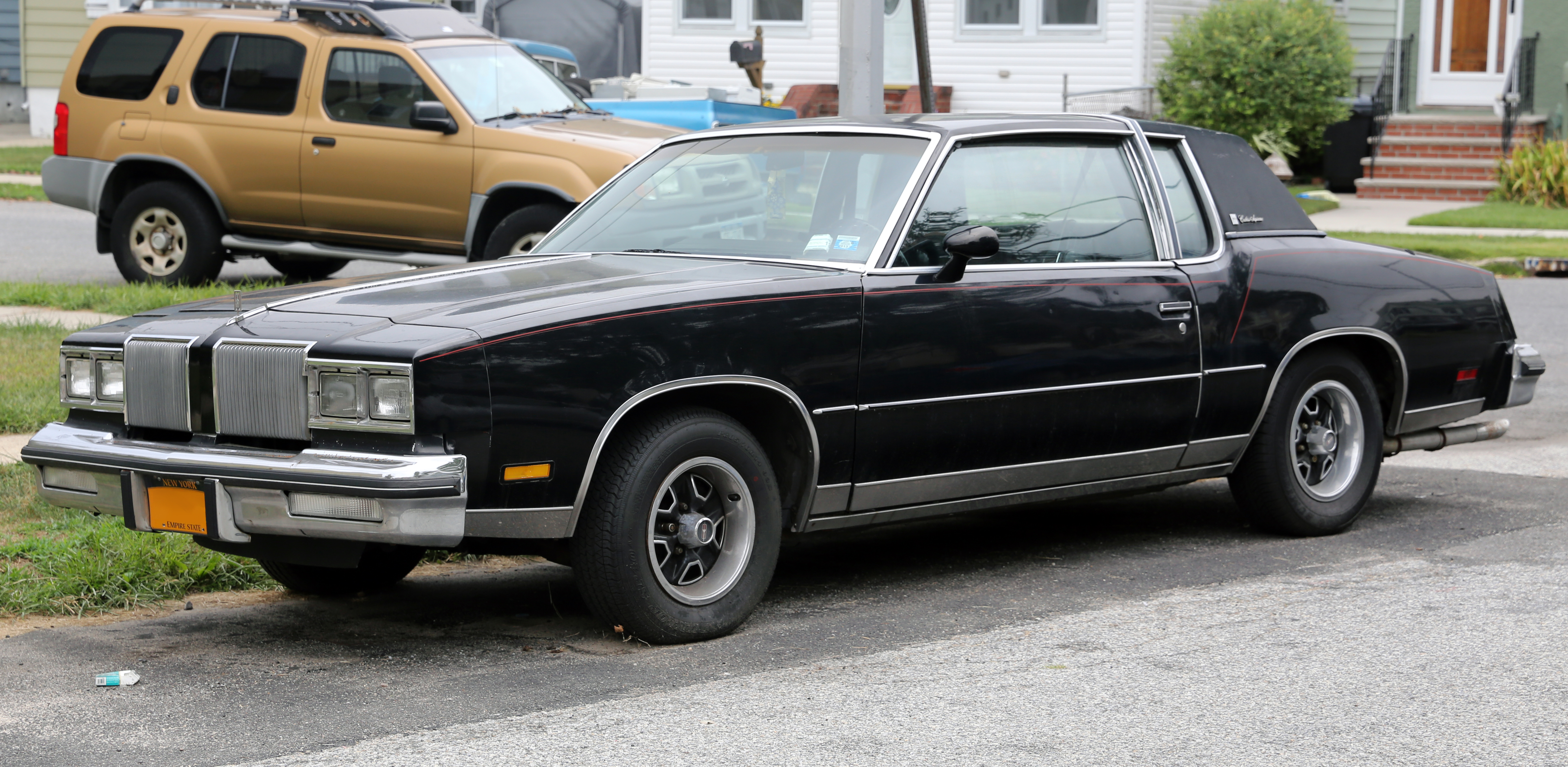 1980 Oldsmobile Cutlass Supreme coupé, 4.2 litre 2-barrel V8 (260ci).